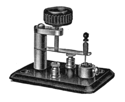 A precision type of crystal detector, from an illustration in a 1919 radiotelegraphy book. It incorporated a needle that touched the surface of a semiconducting mineral crystal. The contact had to be adjusted before each use, and was very sensitive to the position and pressure of the wire on the crystal. This example had a leaf spring adjusted by a micrometer screw to control the pressure. The crystal is secured in a metal cup with a setcrew.